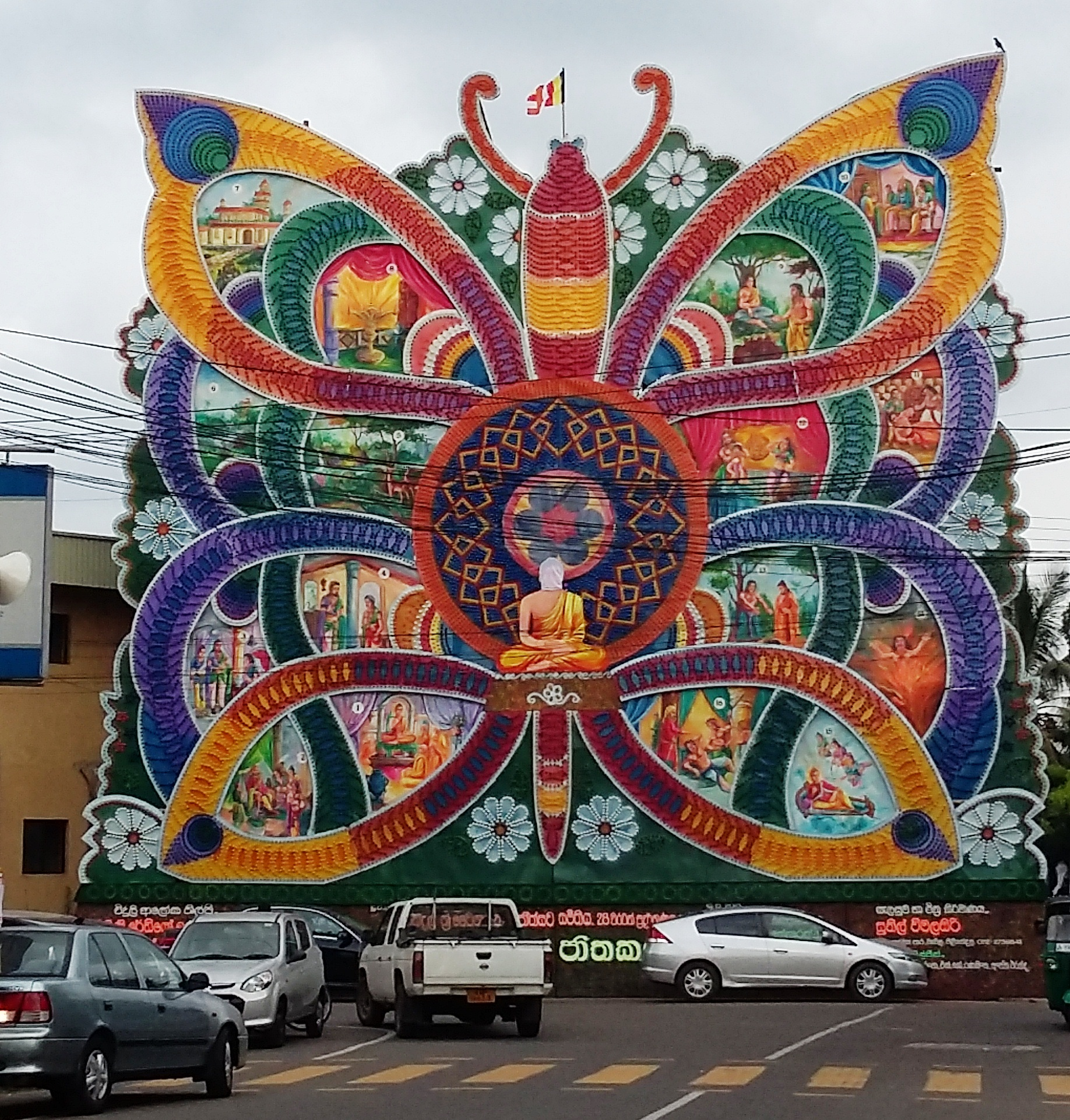 Piliyandala Vesak Pandol, May 2015